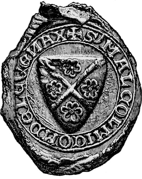 Seal of Maol Choluim I, Earl of Lennox.